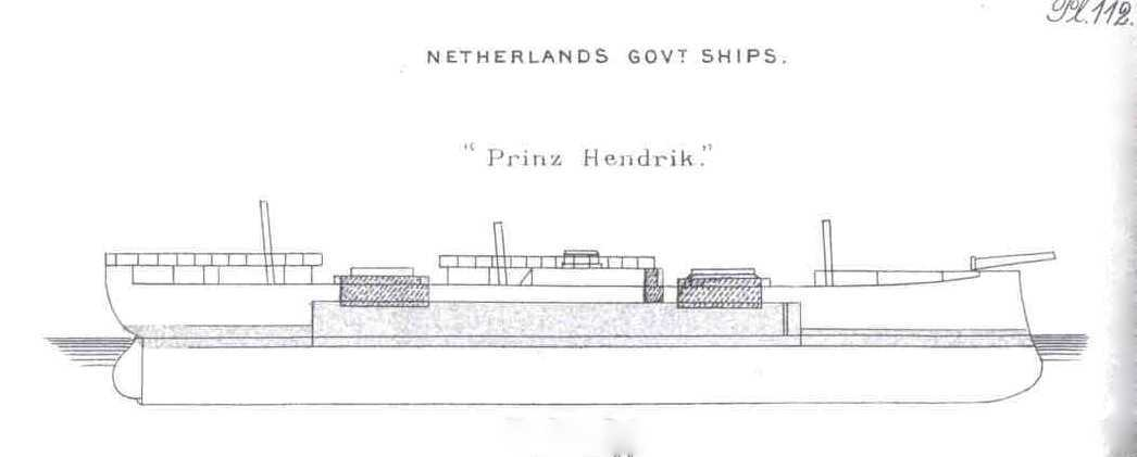 Line-drawing of the Dutch Ironclad Prins Hendrik der Nederlanden, launched 1866.